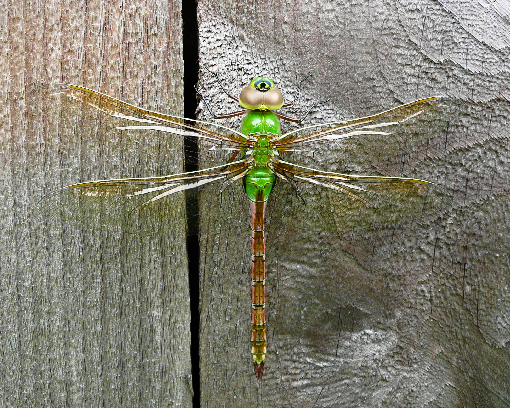 Dragonfly, Common Green Darner, Female, Anax junius